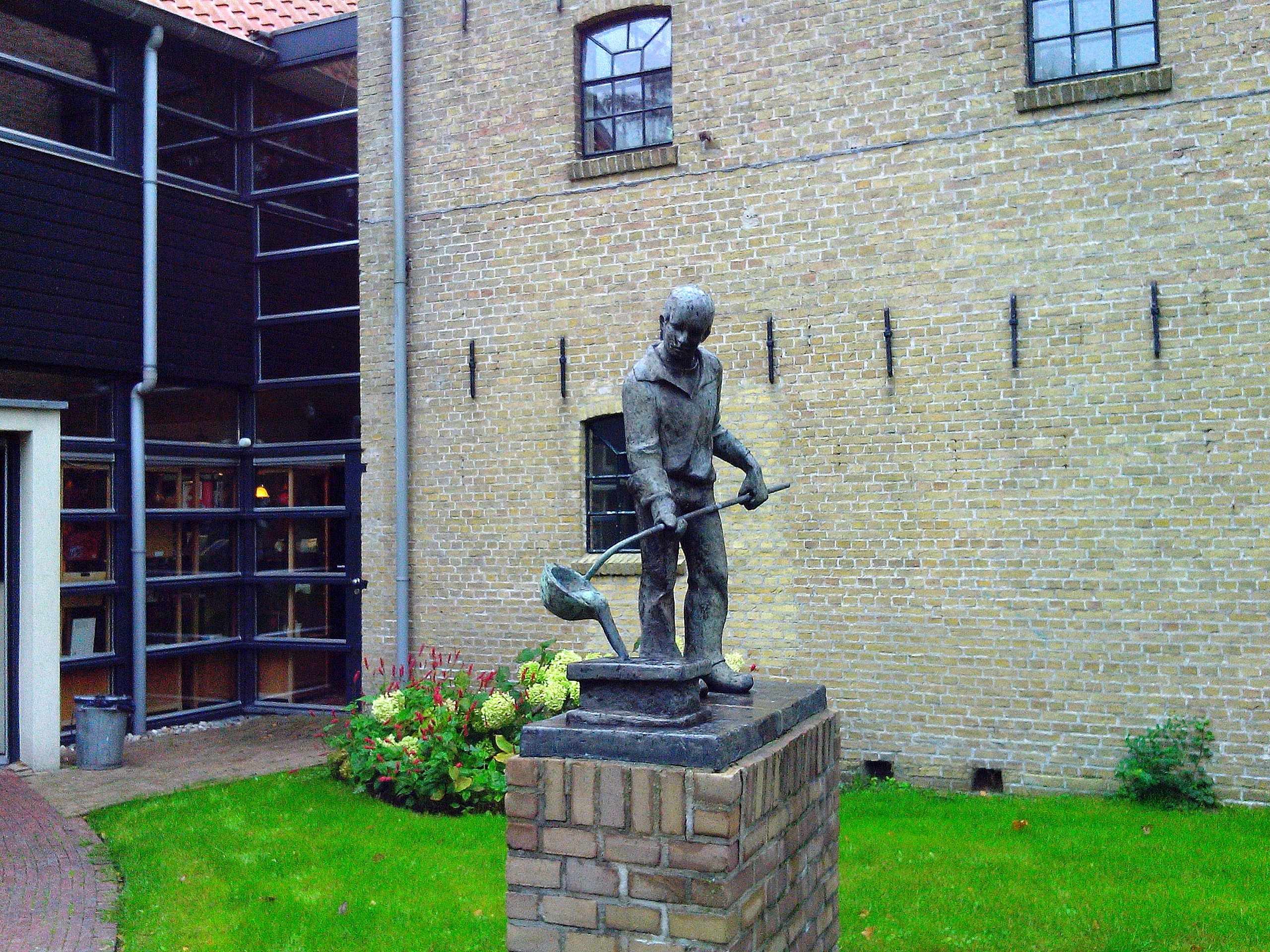 Joure, sculpture in front of Douwe Egberts Museum rijksmonument nr. 514073